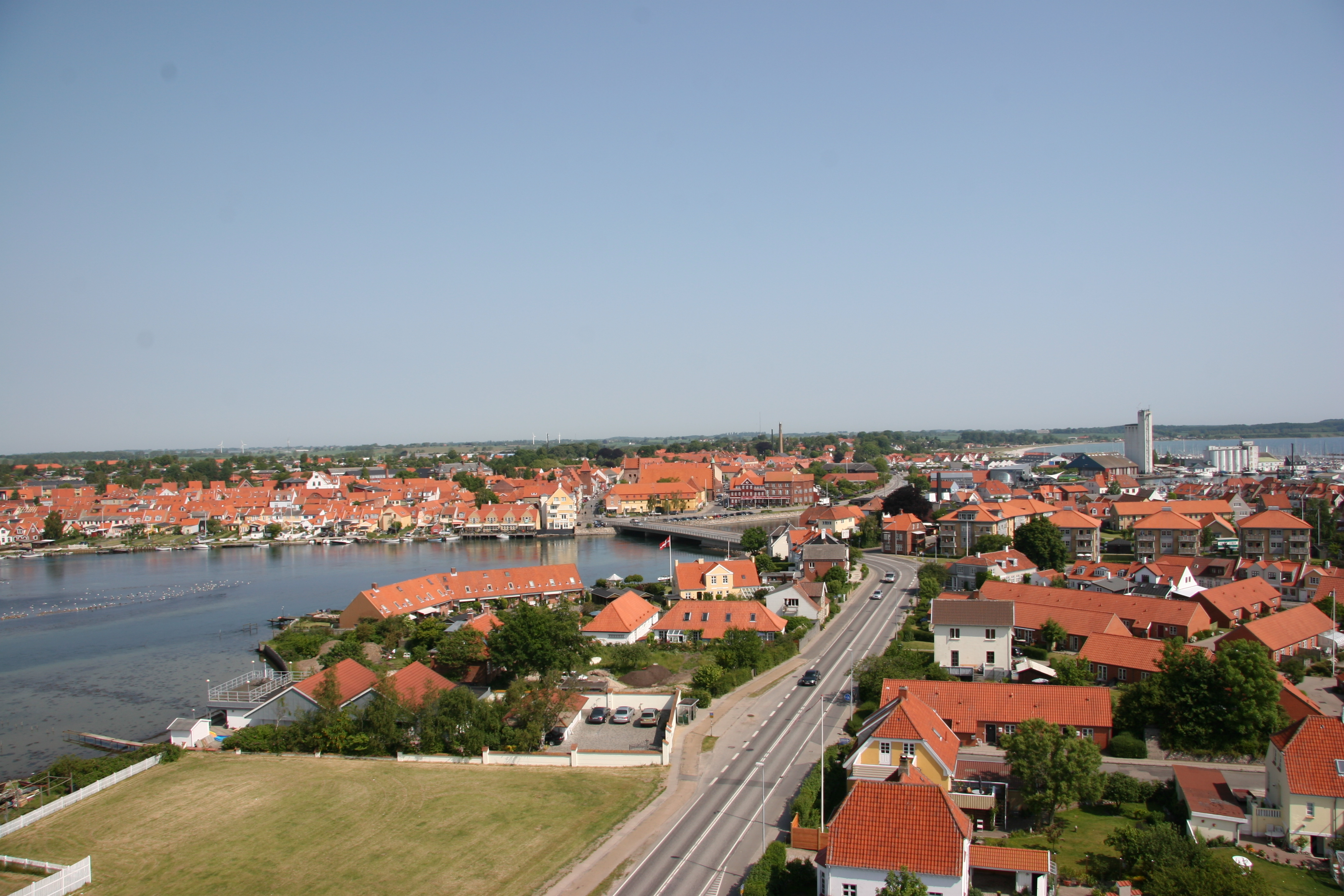 View from Kerteminde Watertower